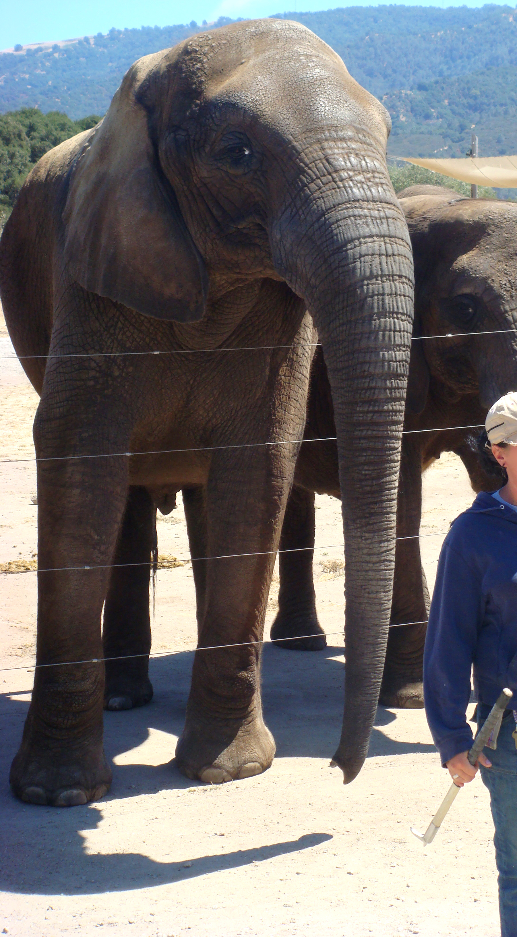 Elephant and Ankus